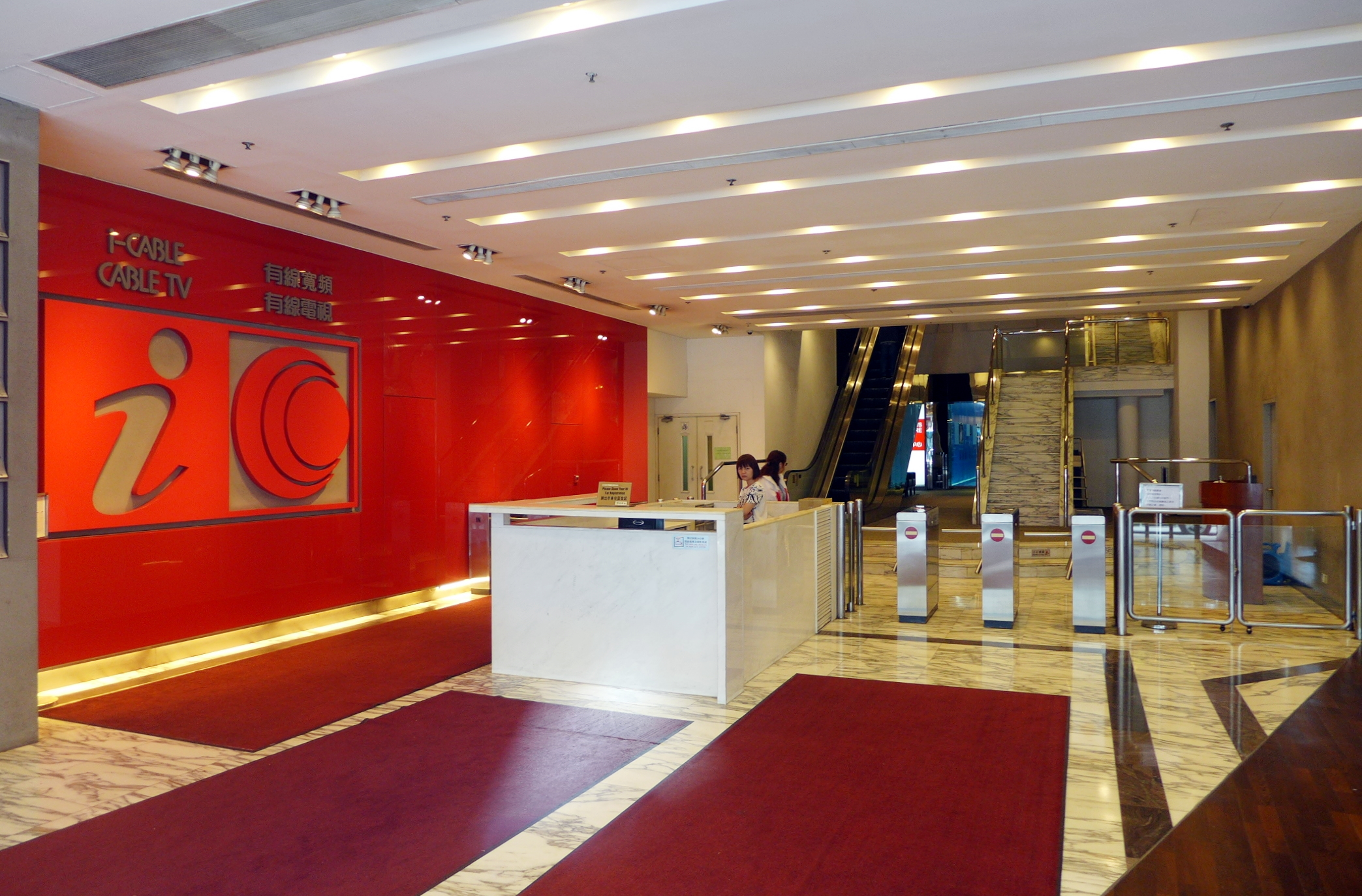 有線電視大廈地下大堂Cable TV Tower GF Lobby